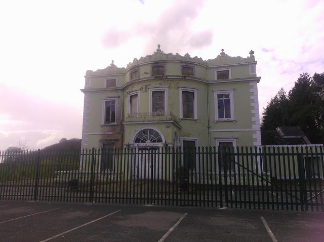 Eighteenth century house in Castleblayney, Ireland.